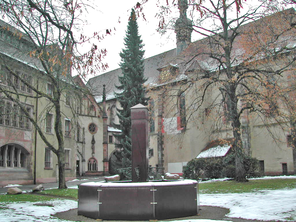 Maria fountain in the court of the monastery Lichtenthal. It was secured (probably) against ice and snow by wooden boards.